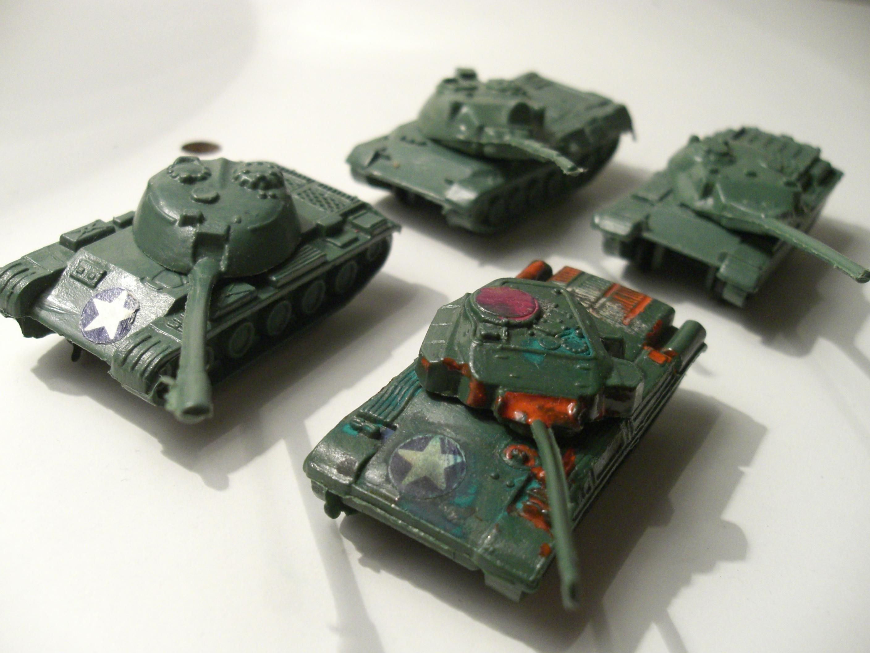 Plastic soldiers - tanks grup.